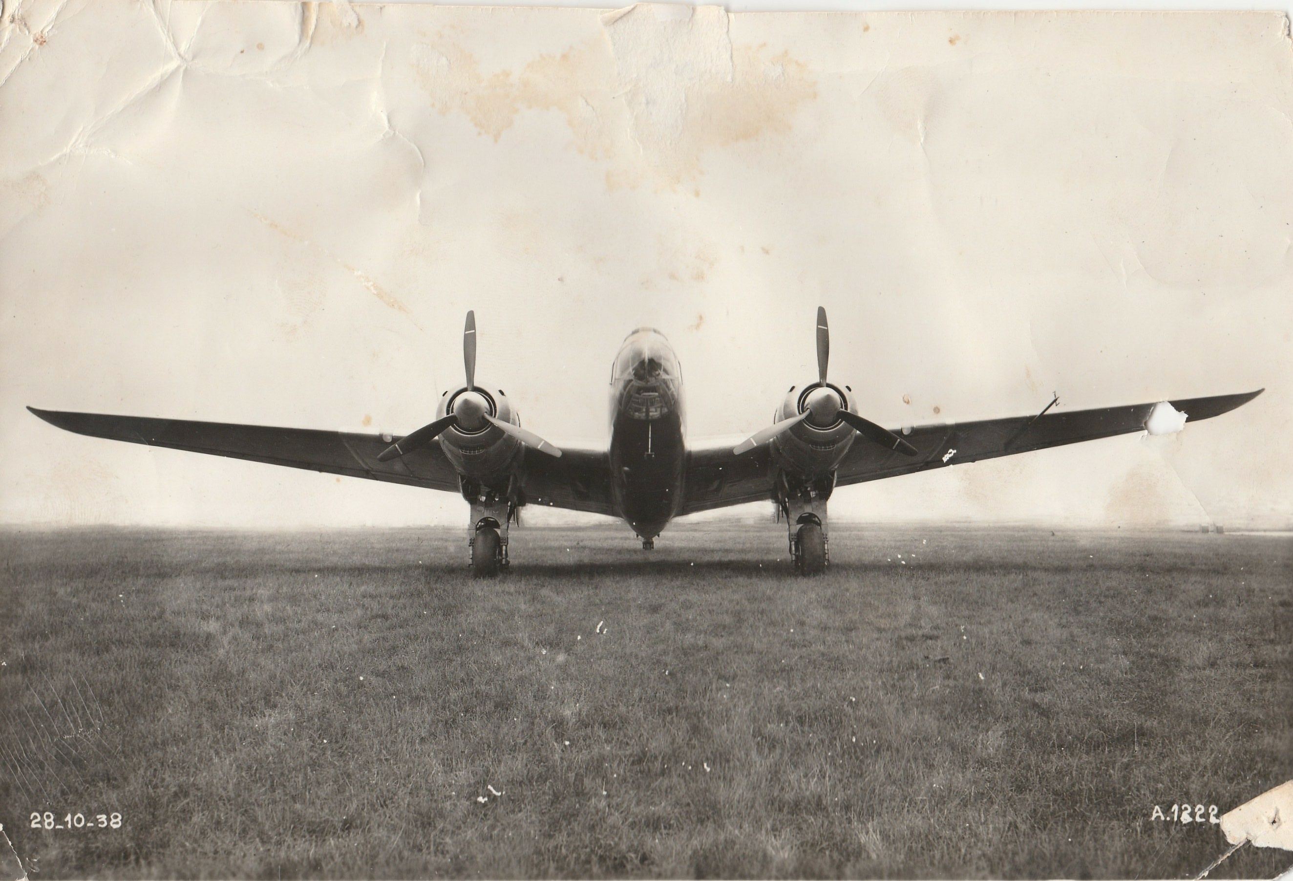 Lioré et Olivier LeO 45